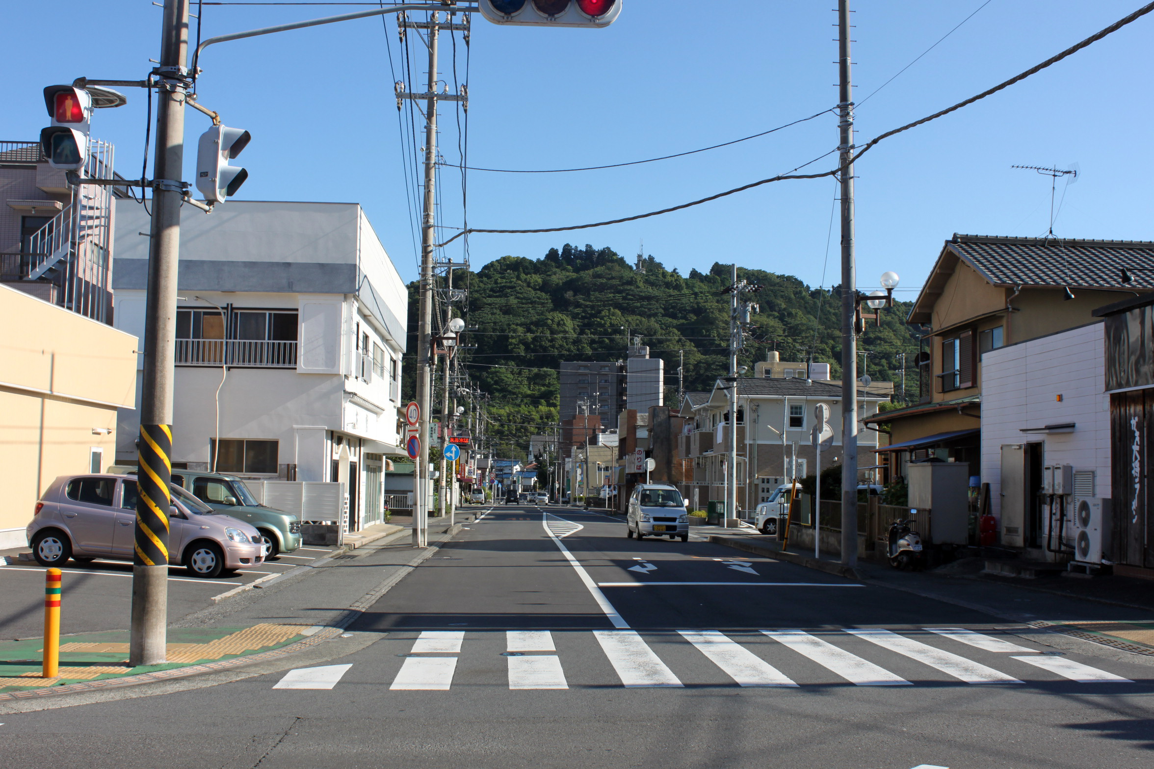 Yugawara, Kanagawa Prefecture. Streetview downtown. Picture by Bertel Schmitt